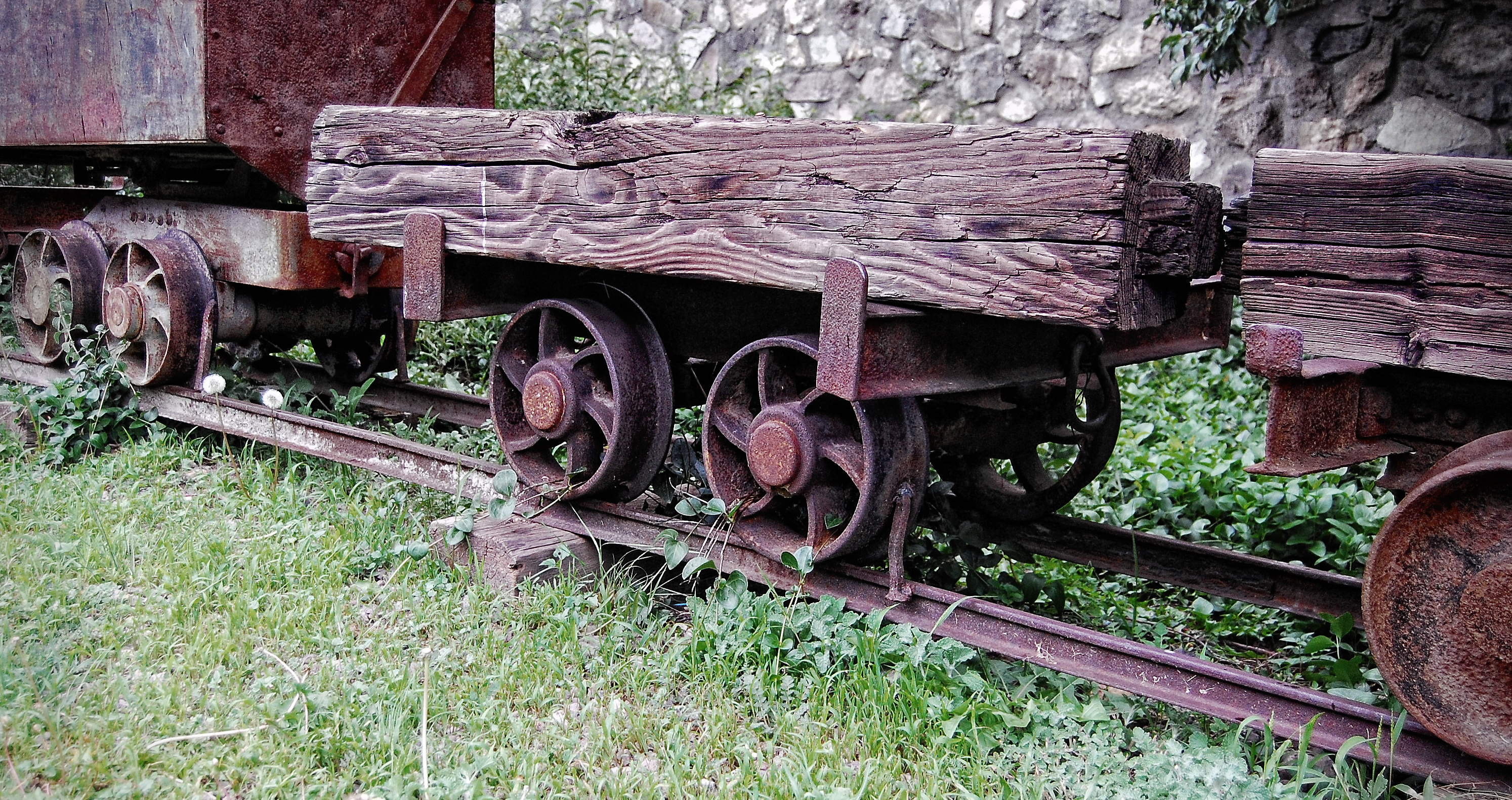 ...put out to pasture beside the main road through Mogollon.